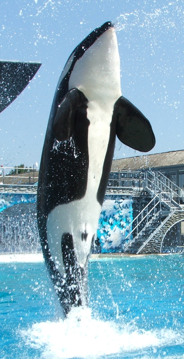 Orca show at Sea World San Diego